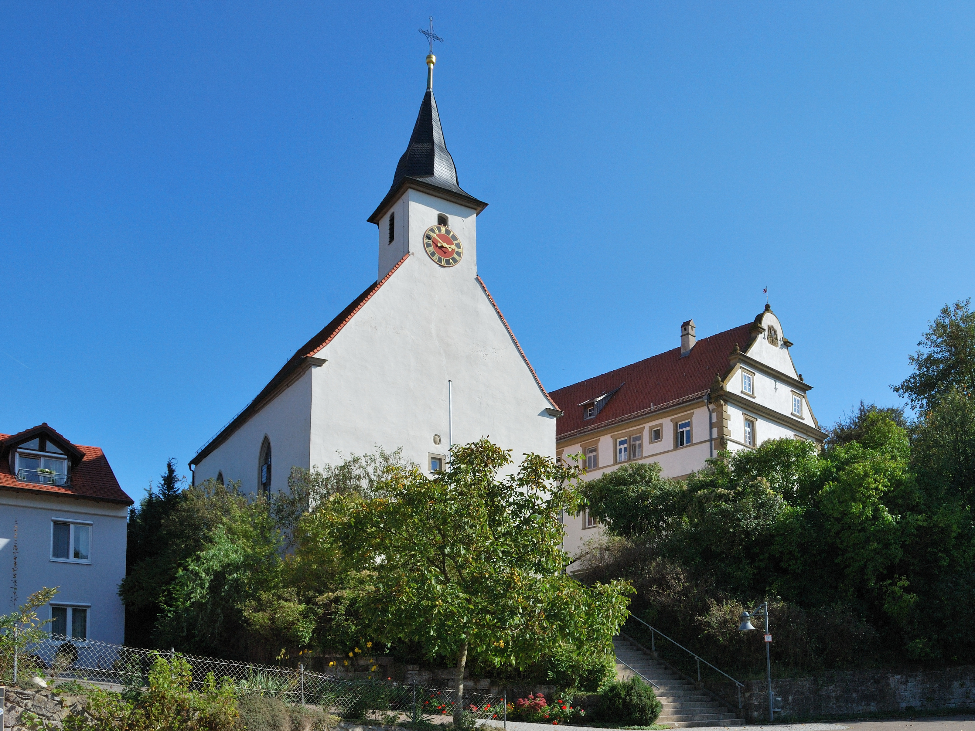 Catholic church St. Burchard in Jagstberg, a part of the city Mulfingen in the district of Hohenlohe in Germany.